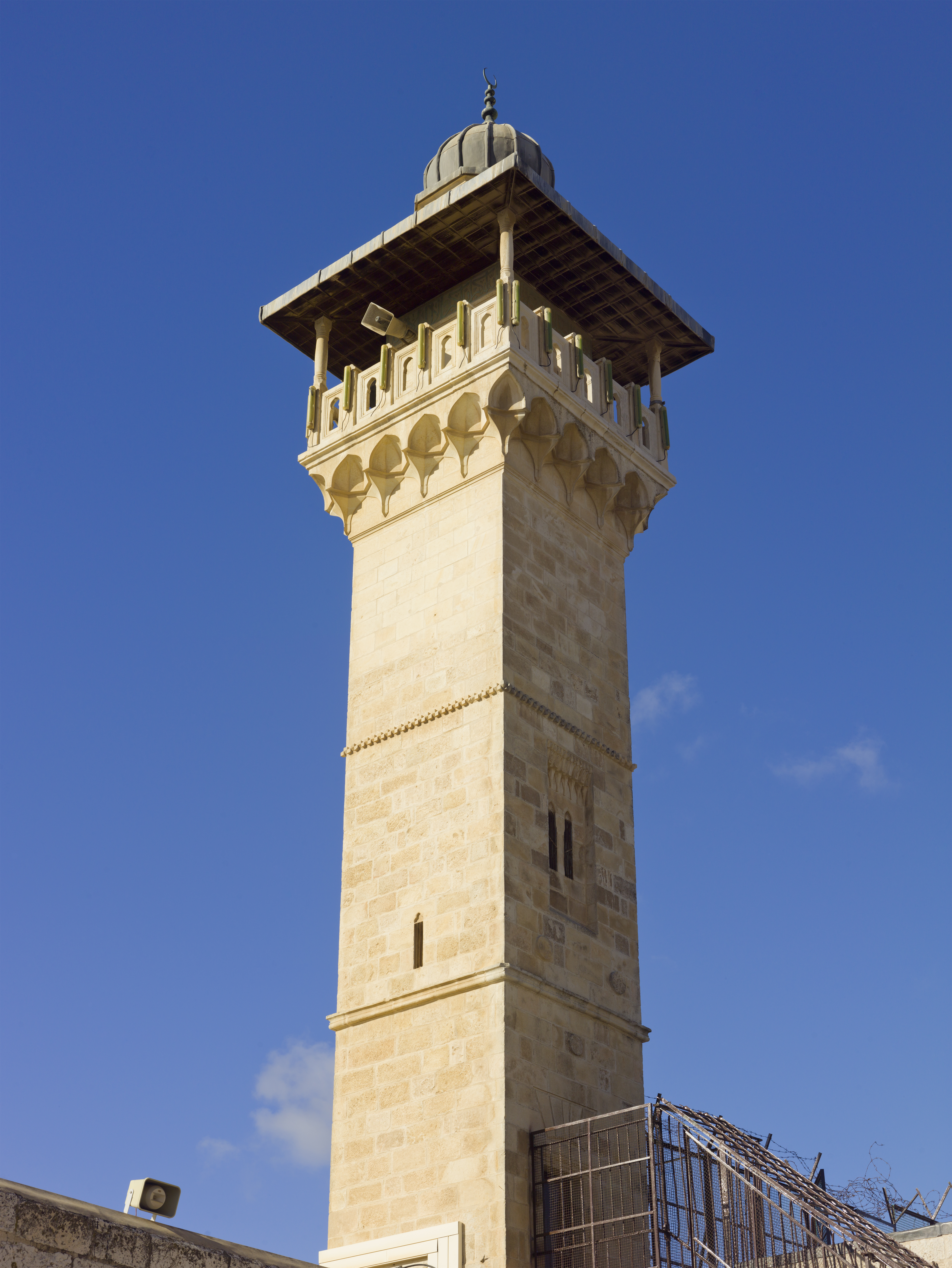 The al-Fakhariyya Minaret is the first of four minarets of Al-Aqsa Mosque, on the Temple Mount in the Old City of Jerusalem. It was constructed in 1278 in the traditional Syrian style.